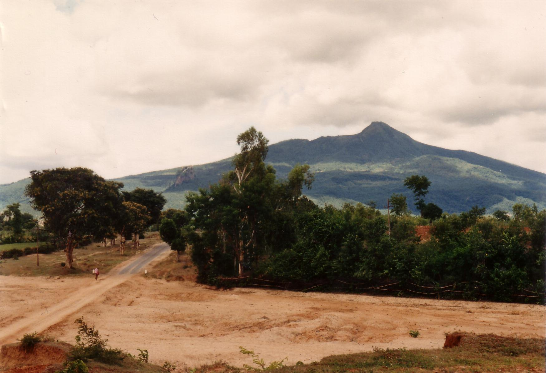 Mount Popa near Bagan in central Myanmar